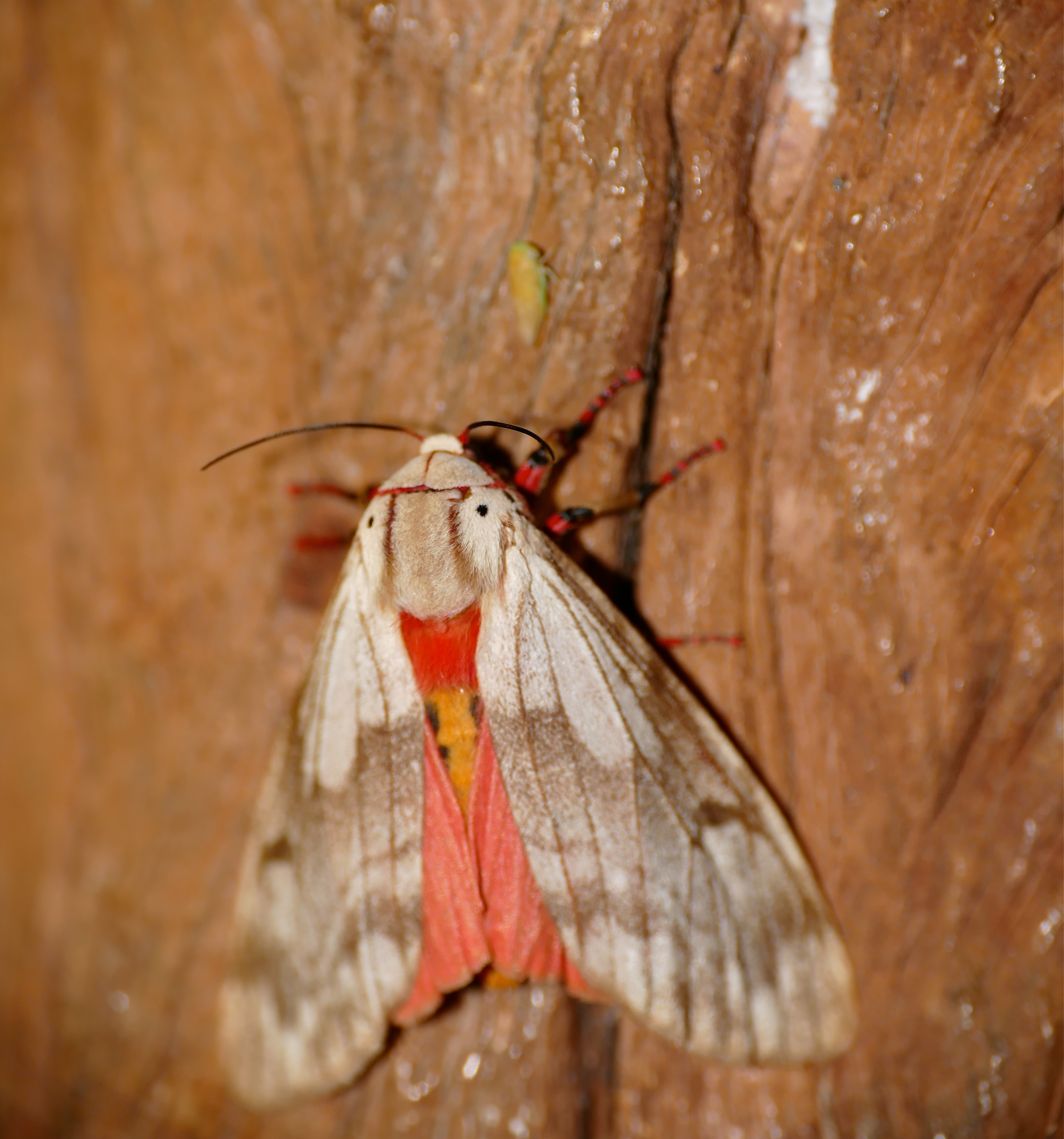 Crocodile Bridge Camp, Kruger NP, SOUTH AFRICA